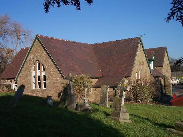 Pencombe School. Viewed from the churchyard looking north east.